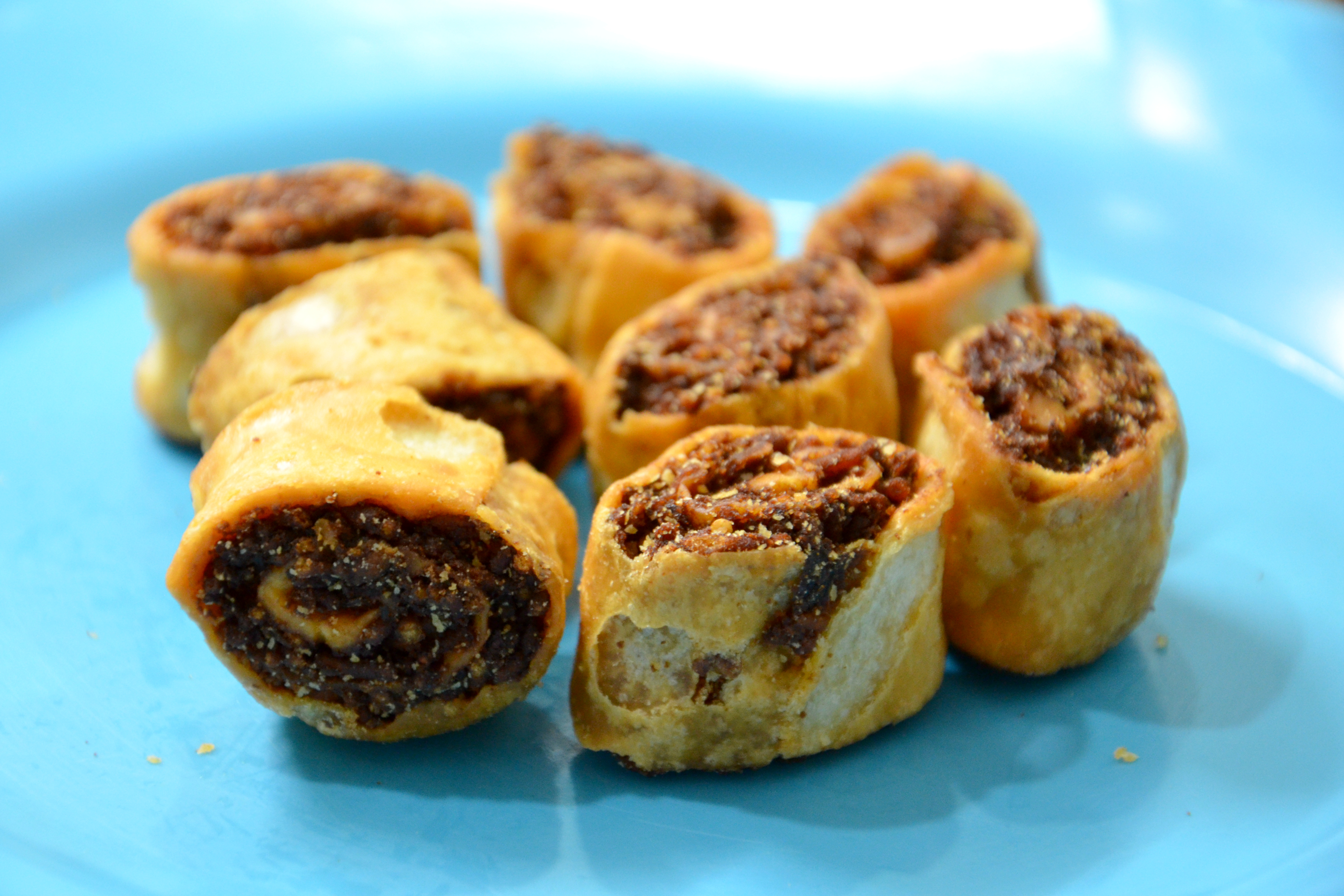 This is a picture of 'Bhakarwadi', which is a traditional dish from the state of Maharashtra. It is made by frying dough that has been stuffed with spices.